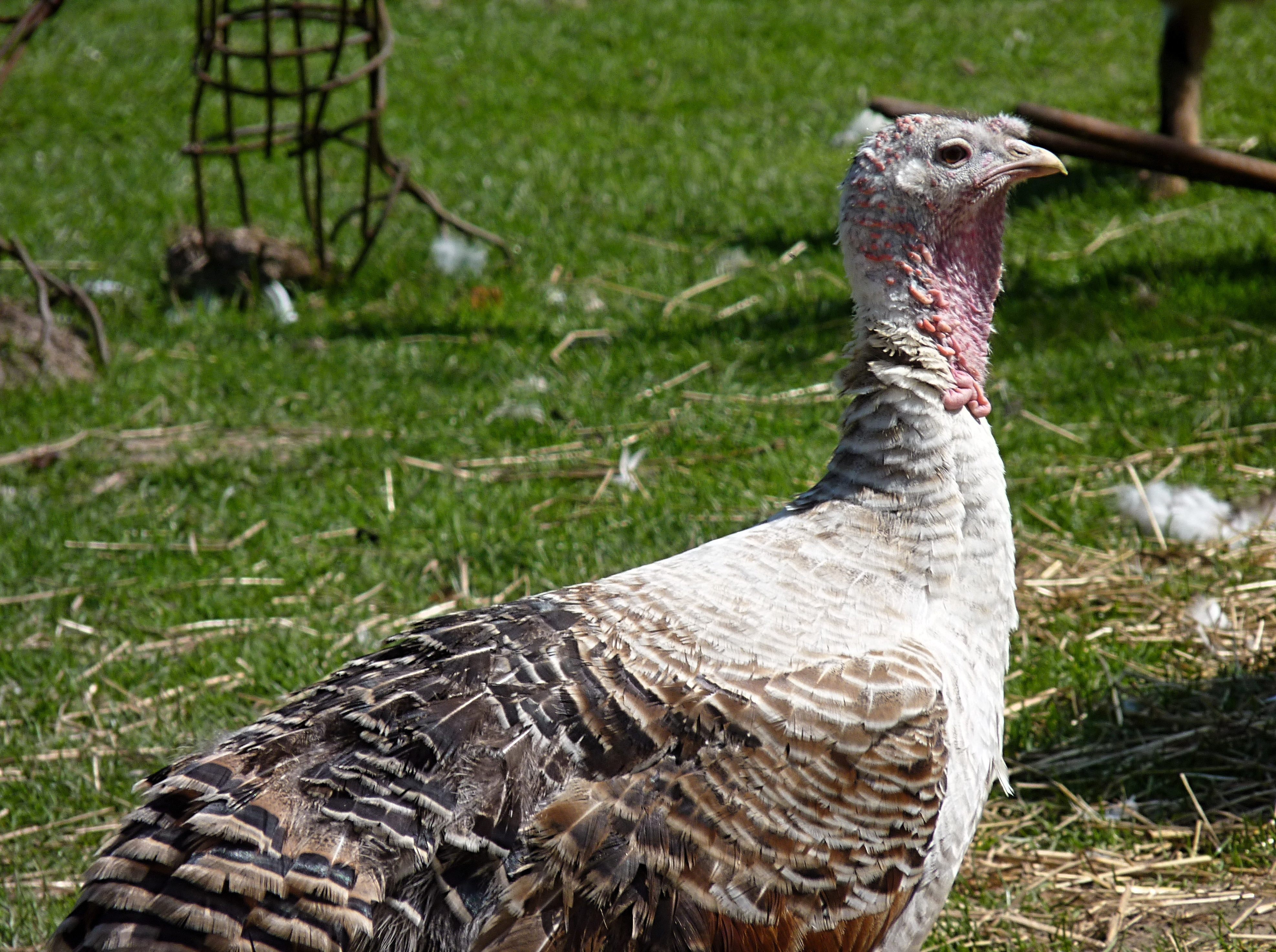 Ronquières turkey (female), picture taken in Belgium.